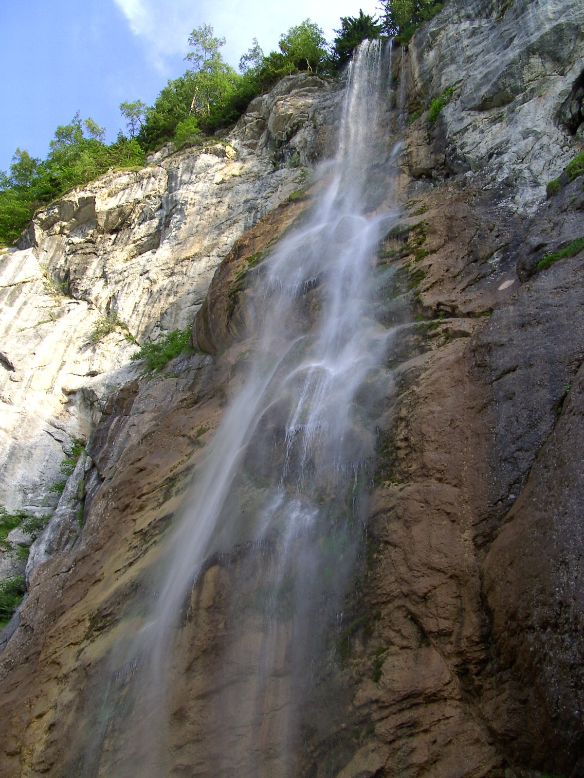 Skakavac waterfall near Sarajevo, BiH